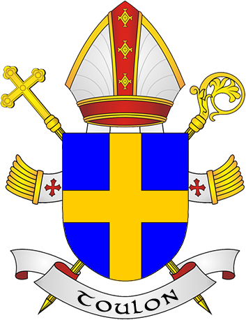 Coat of Arms of diocese of Toulon in France.